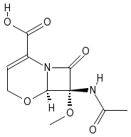 Core structure of cephamycins